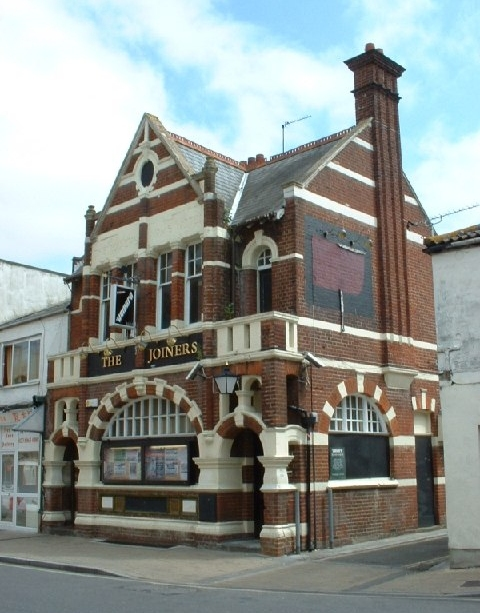 The Joiners, St Mary Street, Southampton, is a famous music venue for local bands, some of which have made it big.